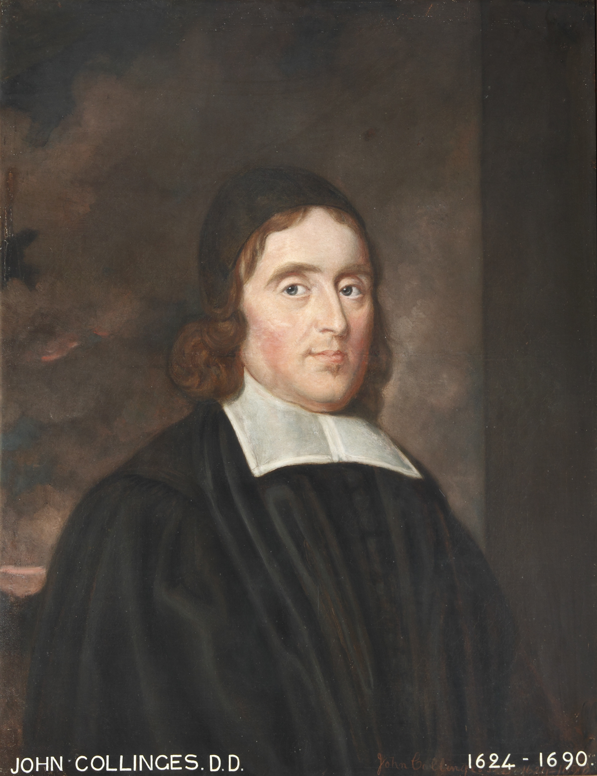 Depicted person: John Collinges